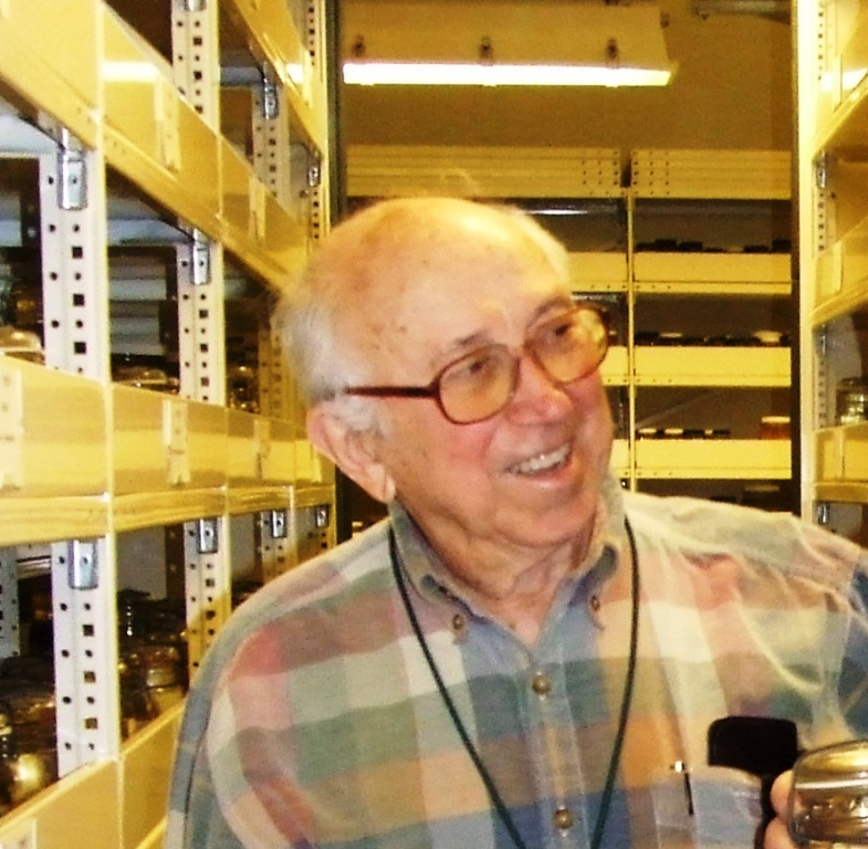 Headshot